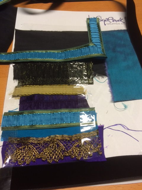 Pieces of lace and silk. The Norwegian designer Lise Skjåk Bræk planning her next festdrakt. Her "Festdrakter" are based on Norwegian traditional patterns and women's clothing